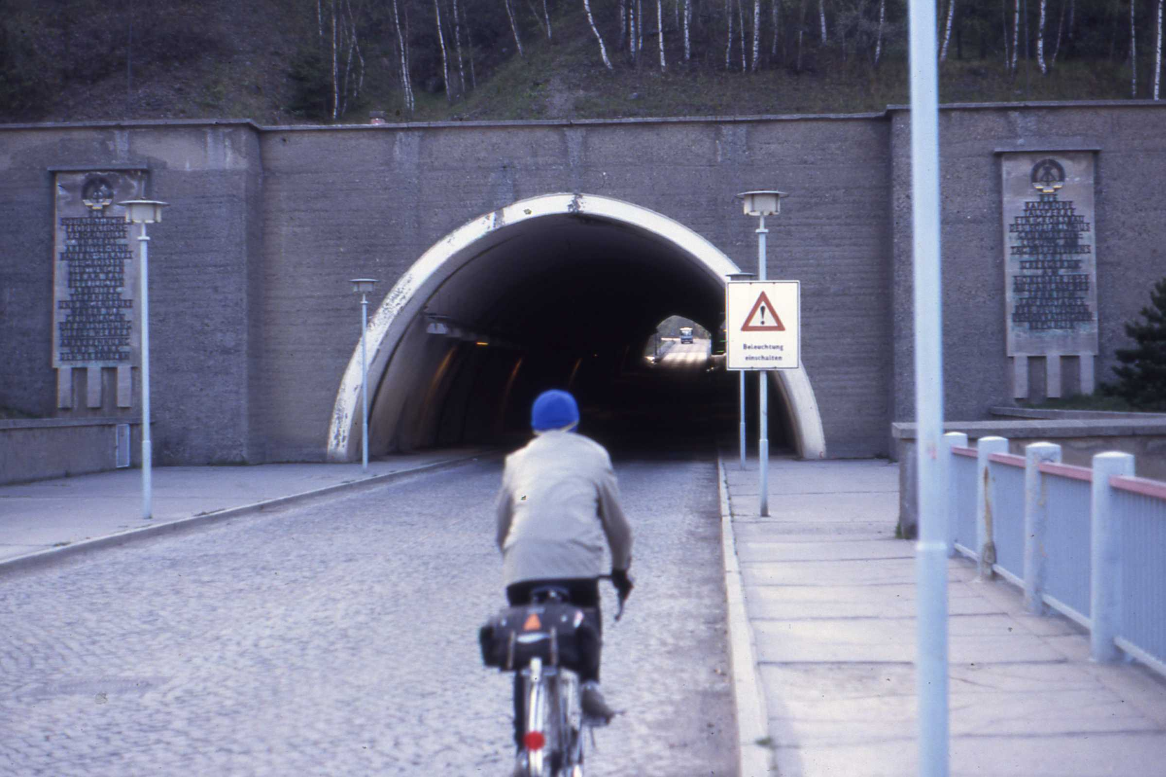 Close ups of the commemorative tablets either side of the tunnel entrance may be seen.....here and here The lamp standards are very fine. The warning sign admonishes drivers to switch on their lights....Beleuchtung einschalten. It's dim out east in tunnels. Is that an Ikarus bus in the light at the other end?